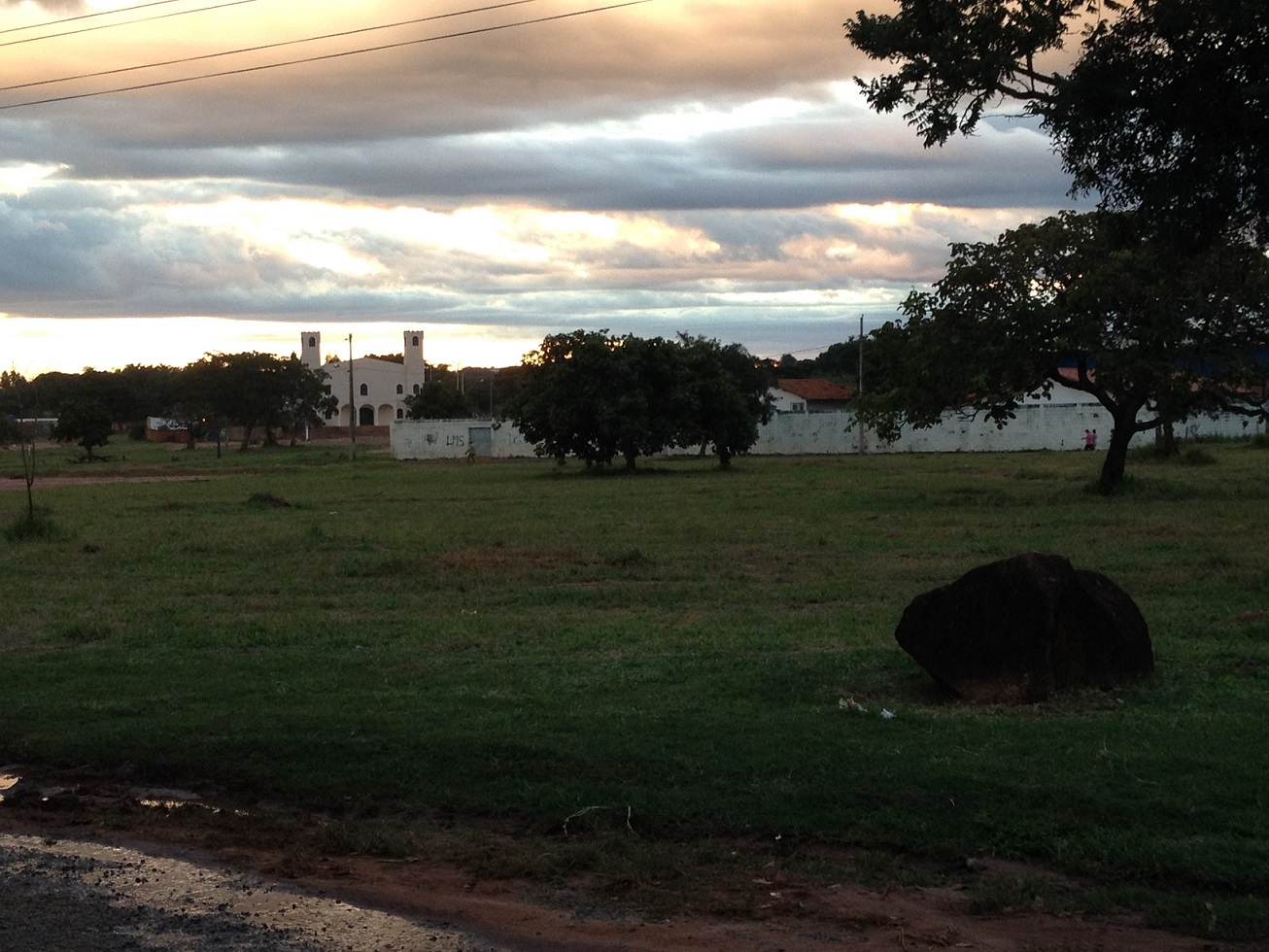 Igreja Morada Nova -Miraporanga-Uberlandia-MG